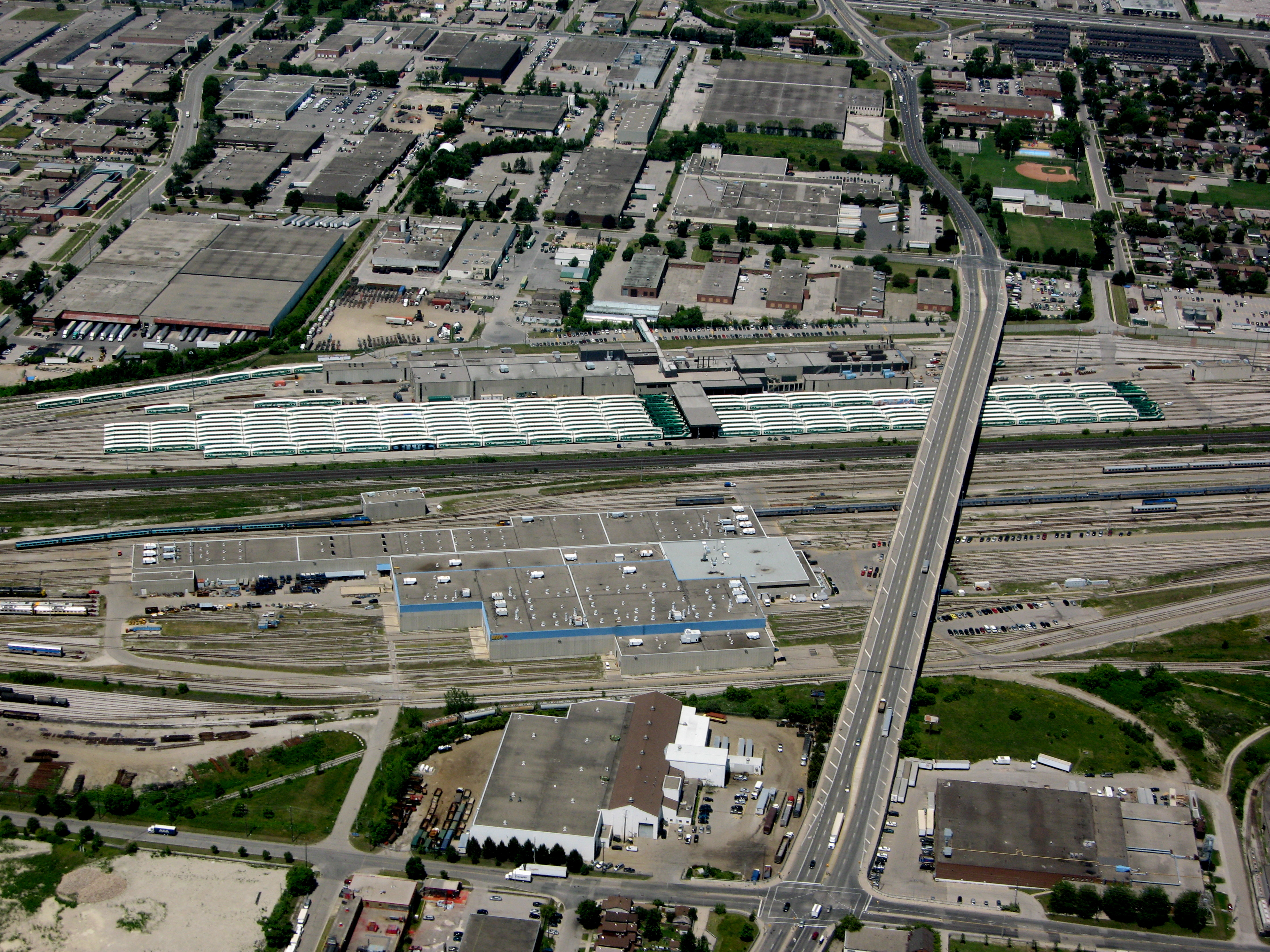 Go Transit rail yards with Via Rail Toronto Maintenance Centre in the foreground